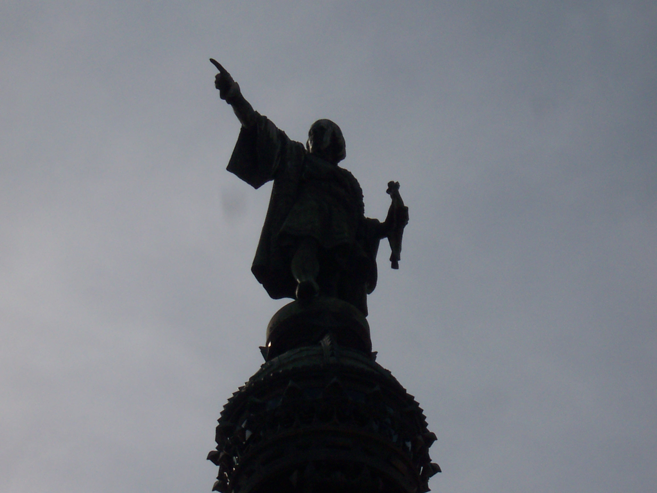 Statue of Columbus, Barcelona.